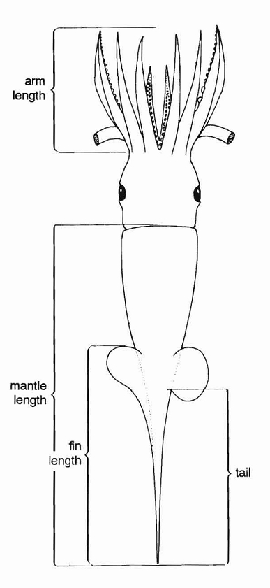 Standard measurements for squid